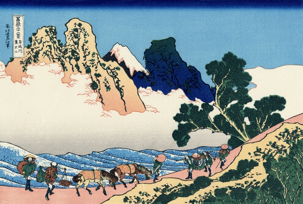 Part of the series Thirty-six Views of Mount Fuji, no. 46, 10th additional woodcut.